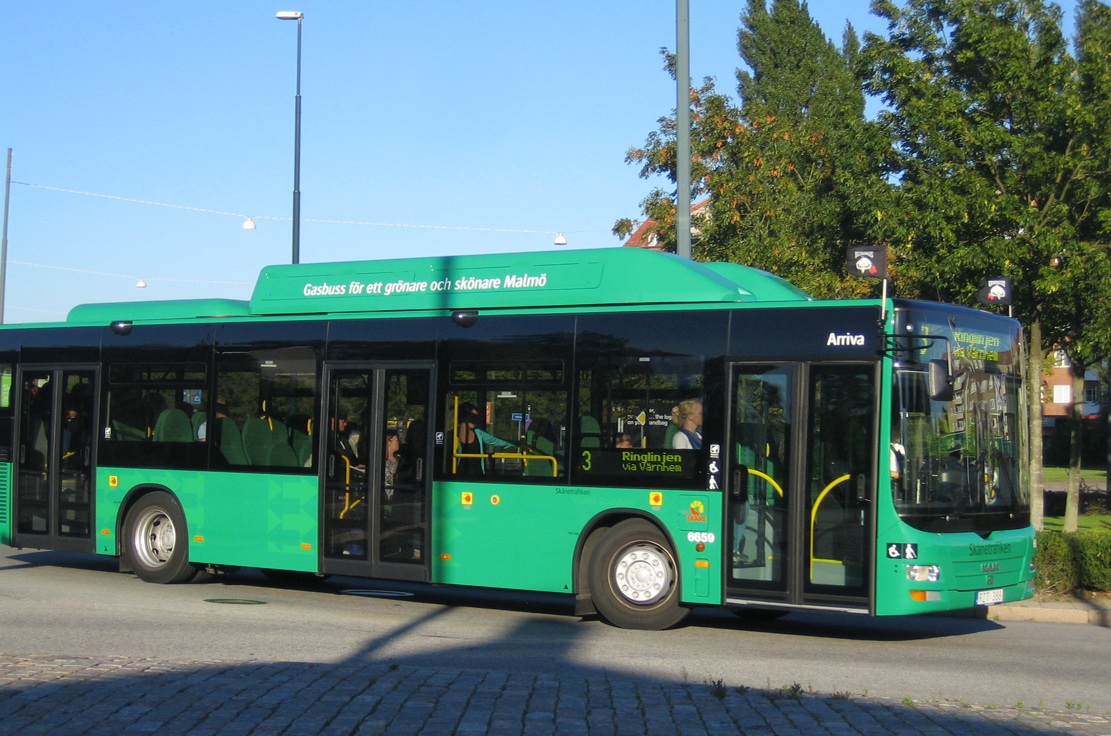 New city bus, Malmö, Sweden. MAN Lion's City G CNG bus.